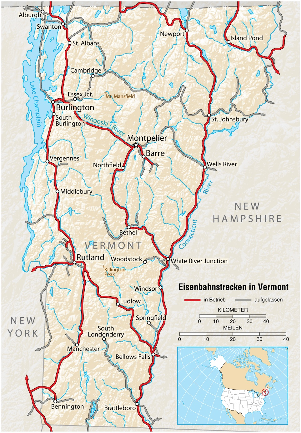 Map of the Vermont railway lines